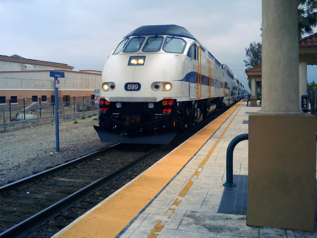 SCAX #899 as San Bernardino Line #364 at Fontana, bound for Riverside.